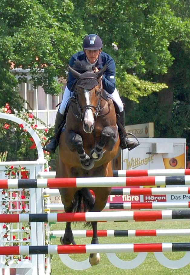 Irish rider Billy Twomey with Je t'Aime Flamenco, "Championat von Hamburg", CSI 5* Hamburg 2011